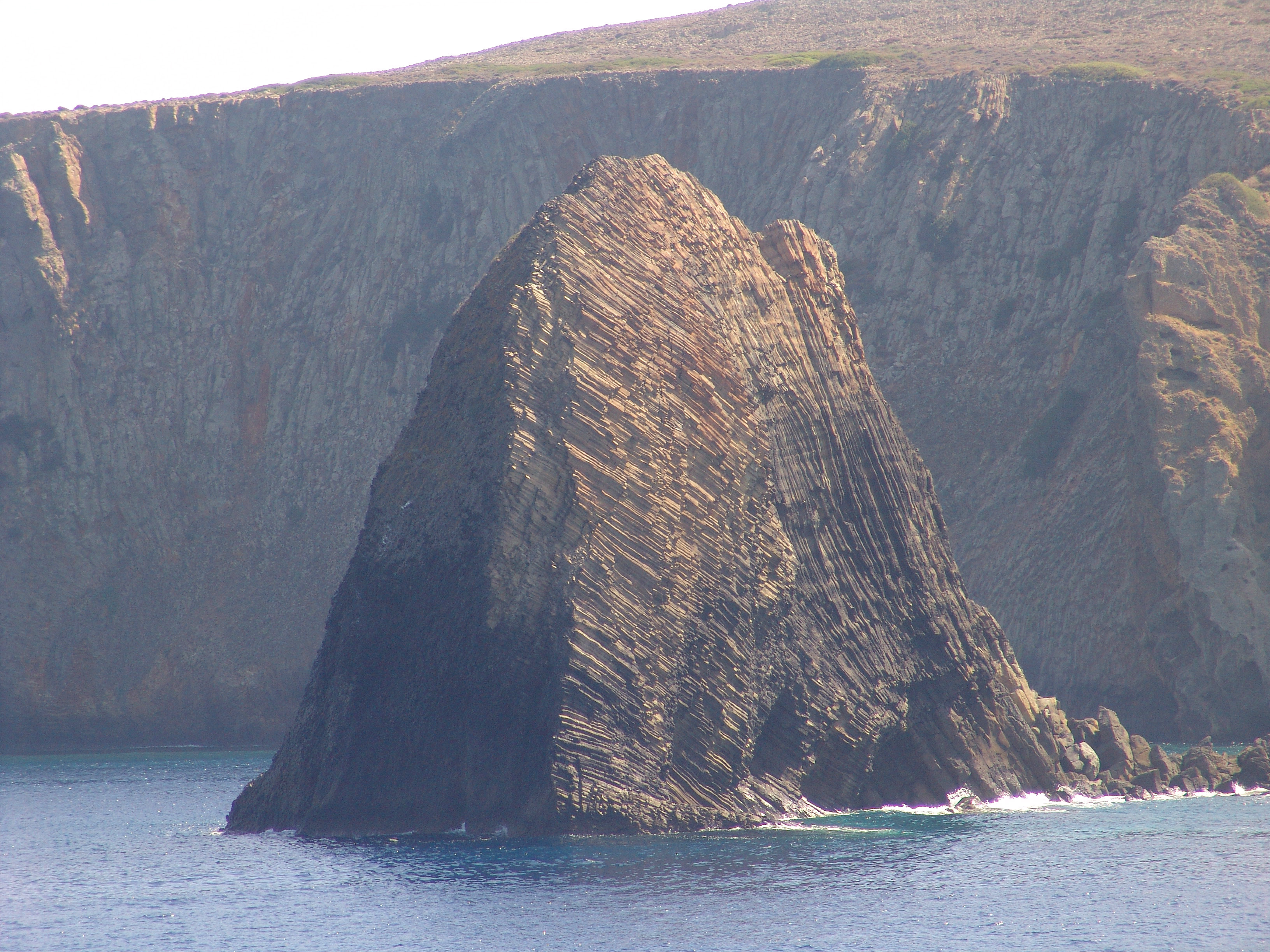 Columns of dacite lava at Glaronisia islet, near the island of Milos in Greece. The lava is of late Pliocene age.